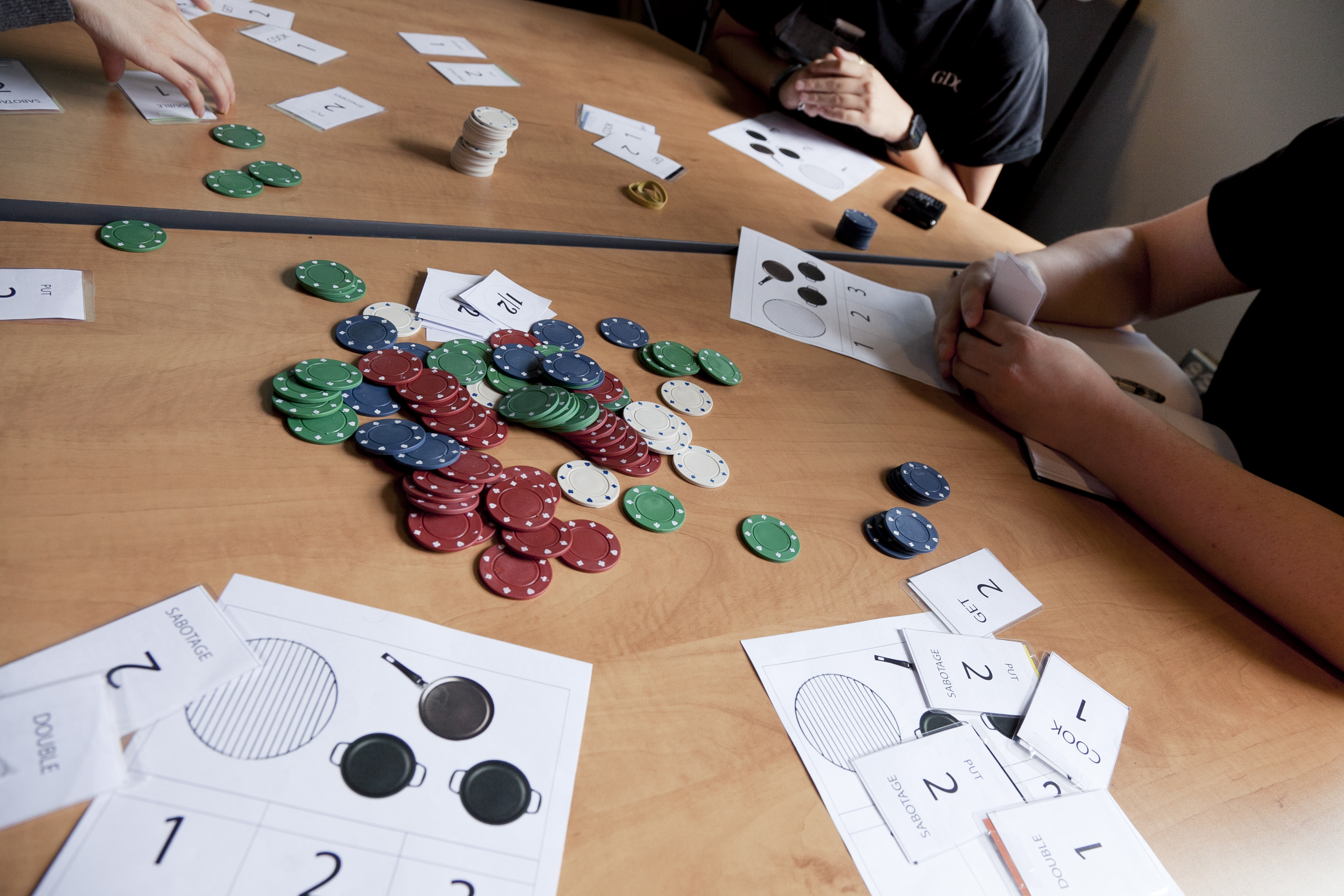 Gamification techniques picture